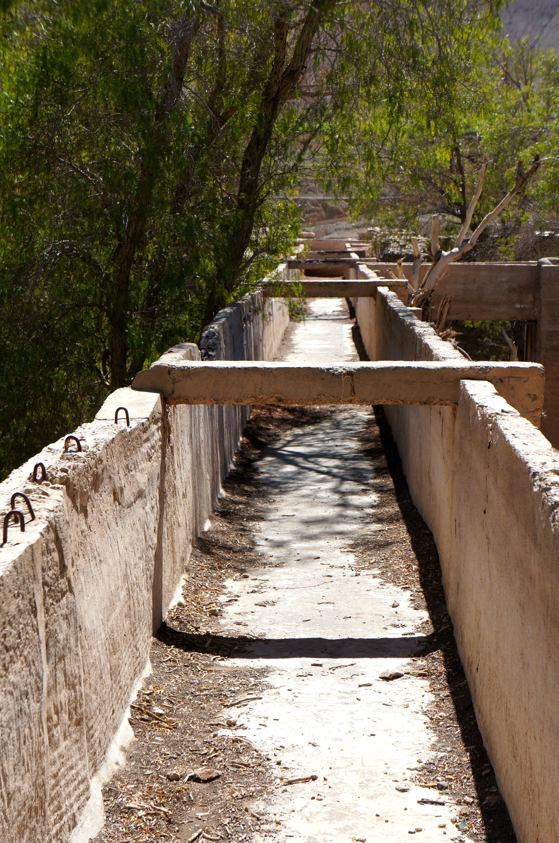 This is a photo of a national monument in Chile: Amolanas Acueducto Amolanas